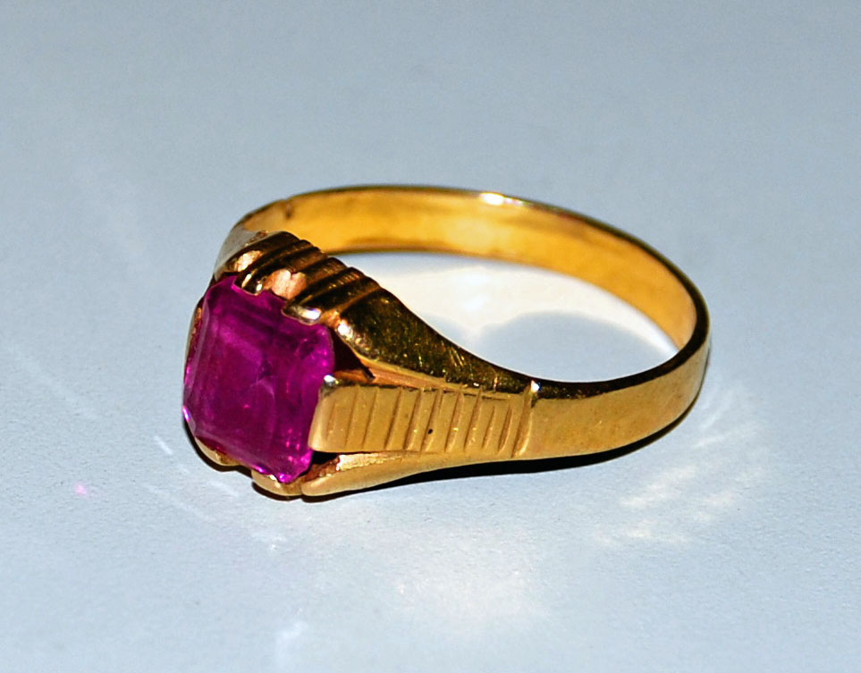 A Gold Ring